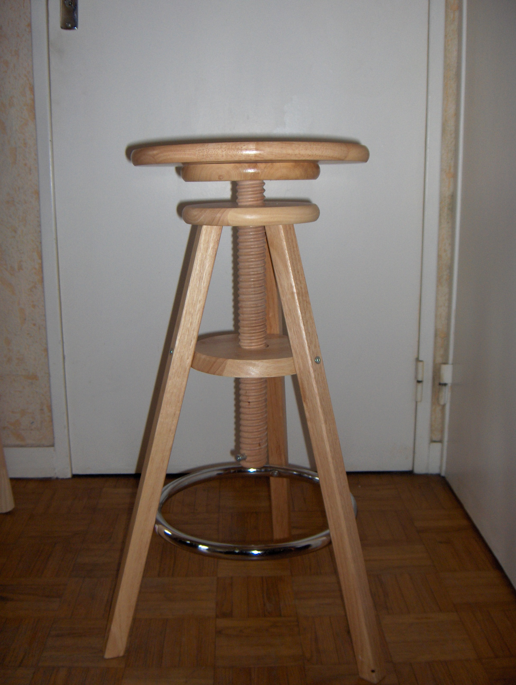 A stool with adjustable height.